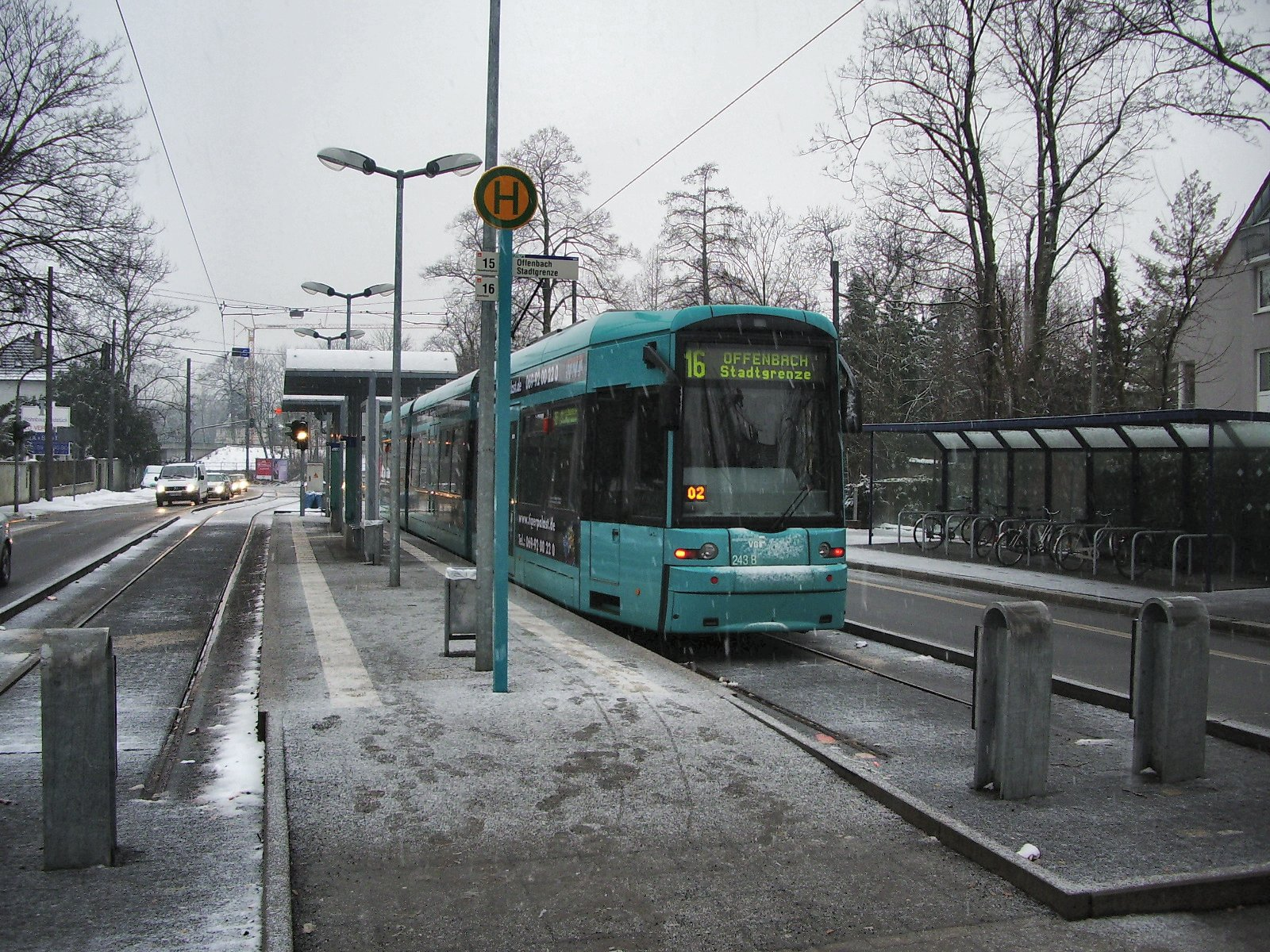 Low floor tram S 243 of Frankfurt am Main at Offenbach Stadtgrenze terminus